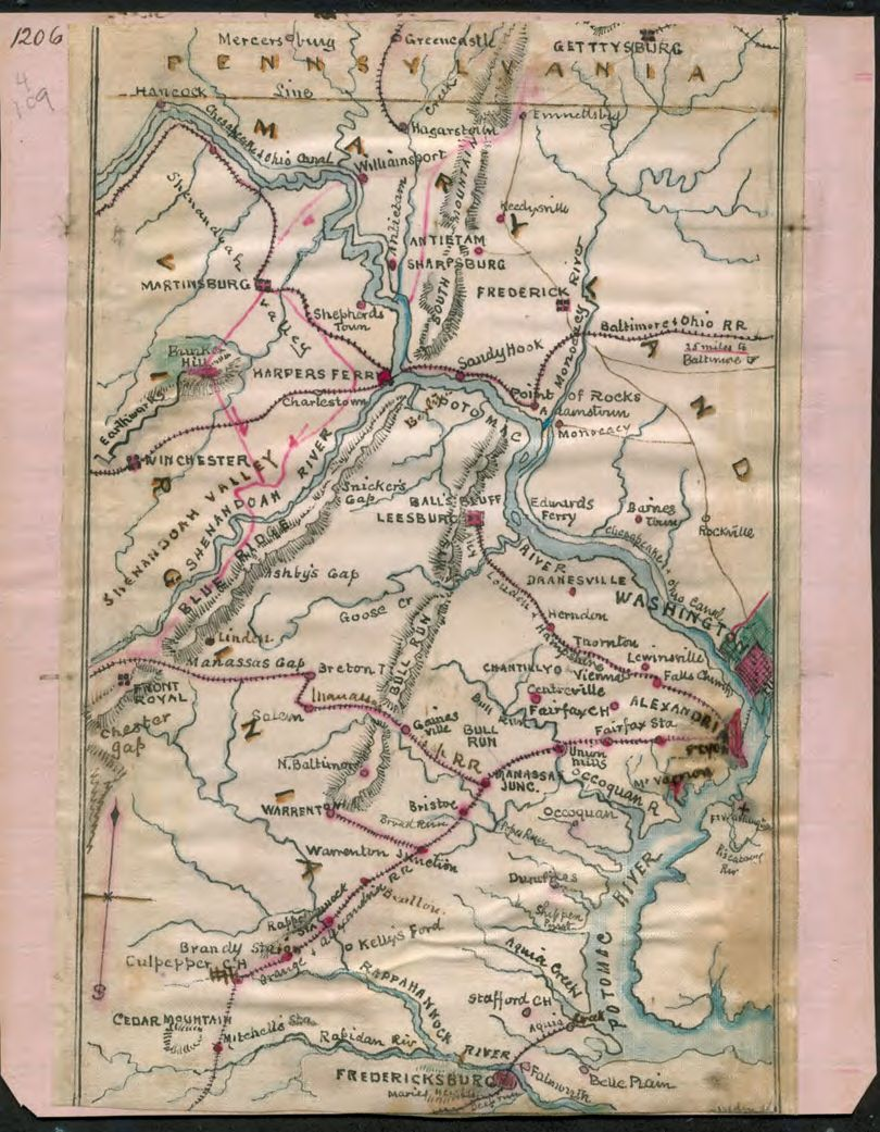 This map shows the Potomac River and its environs circa 1862 when Sneden was stationed in northern Virginia with the Union Army and serving as a draughtsman.